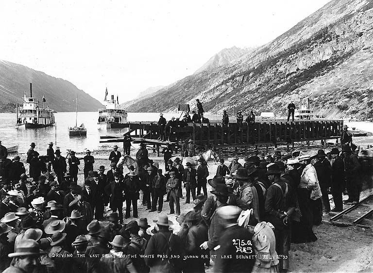 Shows two steamboats in the background and crowd observing the ceremony . Caption on image: "Driving the last spike of the White Pass and Yukon RR at Lake Bennett. July 6th '99"" Klondike Gold Rush. Subjects (LCTGM): Lakes & ponds--British Columbia; Railroad construction & maintenance--British Columbia--Bennett; Railroad tracks--British Columbia--Bennett; Steamboats--British Columbia--Bennett Subjects (LCSH): Bennett, Lake (B.C.); White Pass & Yukon Route (Firm)